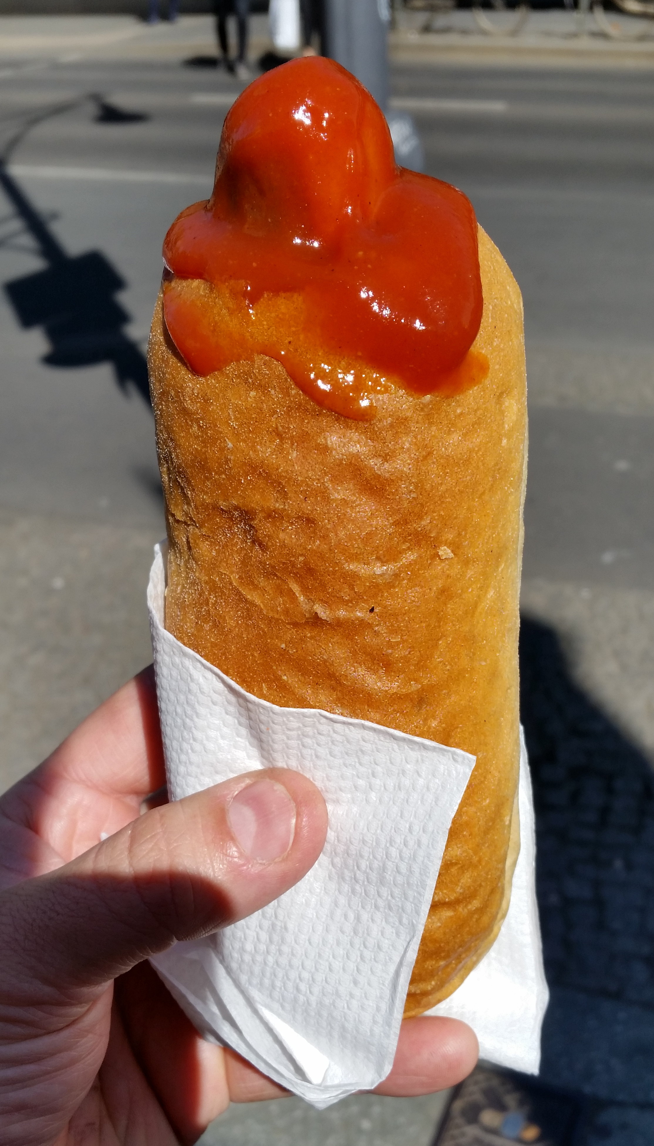 Ketwurst, or Kettwurst, is an East German sausage snack covered in ketchup and served in a roll.